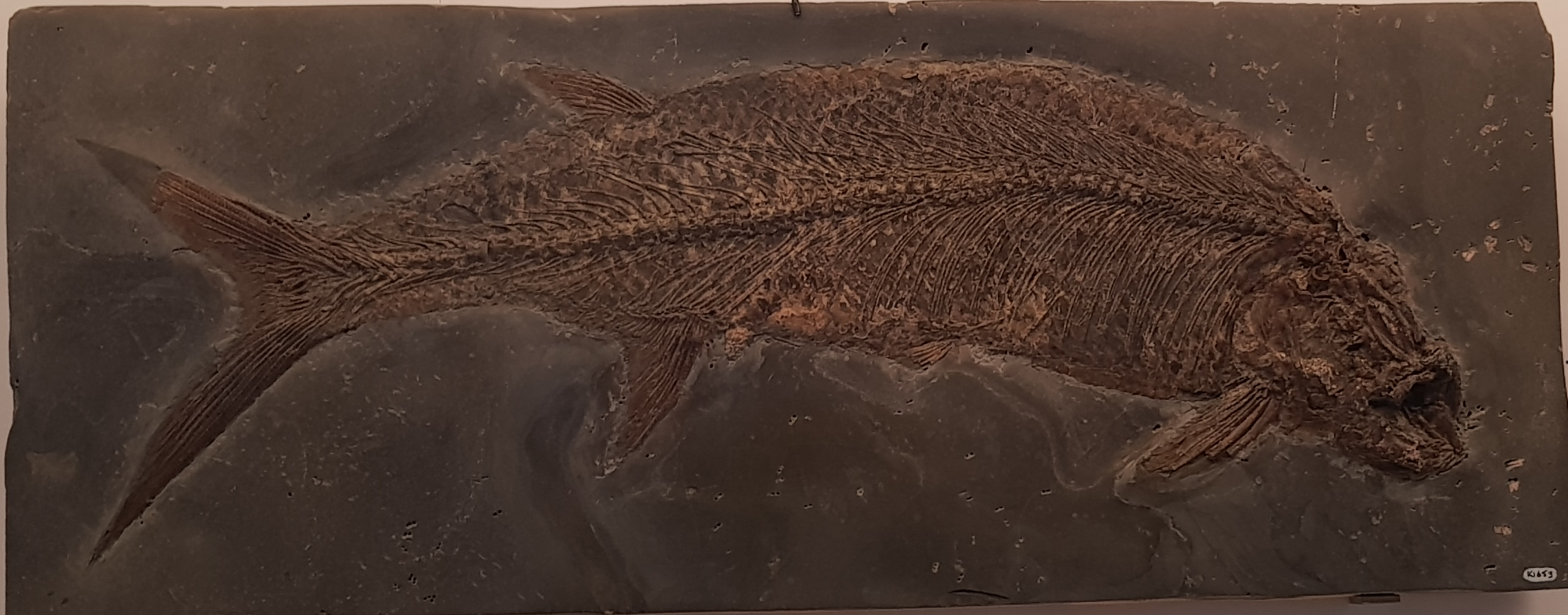 Thrissops specimen from the Etches Collection.